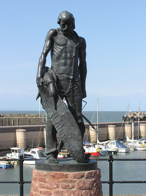 The statue of the Ancient Mariner at Watchet, Somerset, England. The statue was unveiled in September 2003, as a tribute to Samuel Taylor Coleridge. The sculptor was Alan B Herriot of Penicuik, Scotland. Coleridge lived in the nearby village of Nether Stowey, about 10 miles from this statue. In 1797, while on a walking tour, Coleridge visited Watchet. On seeing the harbour, it is believed he was inspired to compose The Rime of the Ancient Mariner. Relevant extract from poem: Ah ! well a-day ! what evil looks Had I from old and young ! Instead of the cross, the Albatross About my neck was hung.